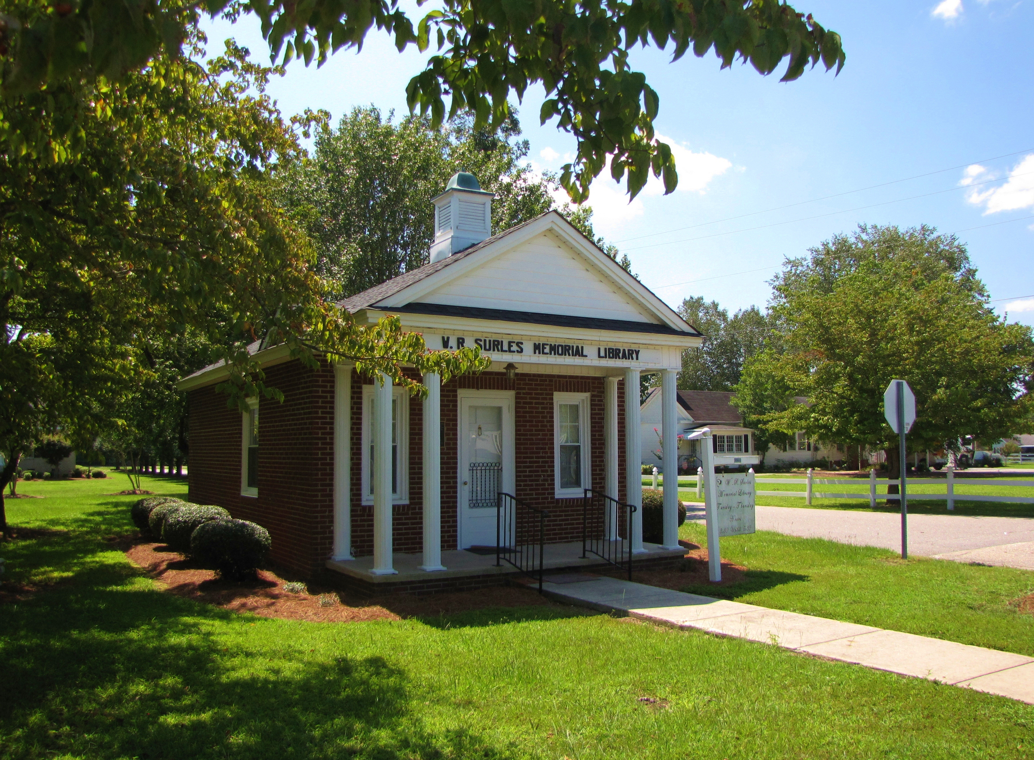 The W.R. Surles Memorial Library is on Main Street in Proctorville, North Carolina in Robeson County. It is just 20 by 30 feet in area.